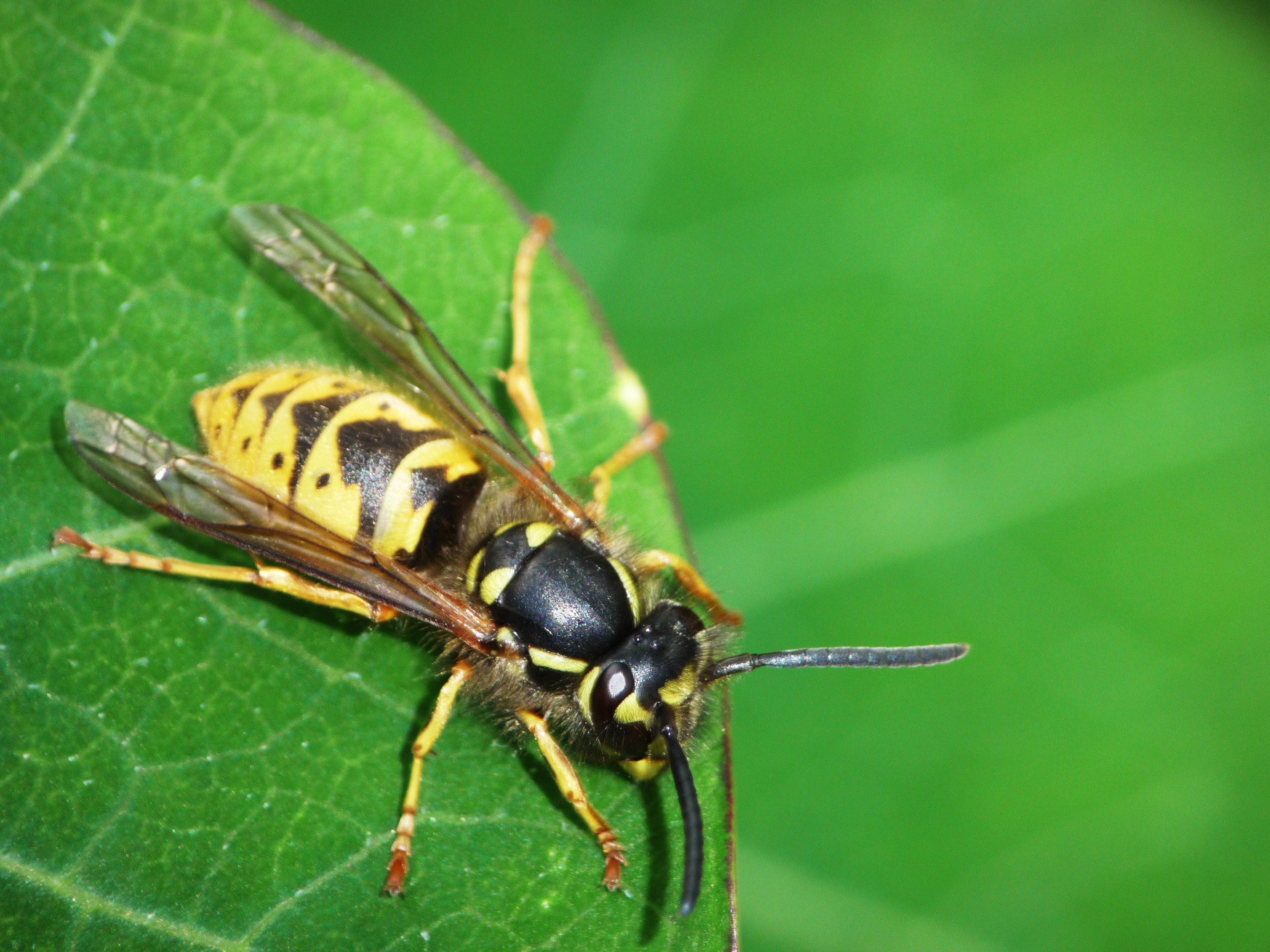 Panasonic TZ5 with Raynox 150 macro lens